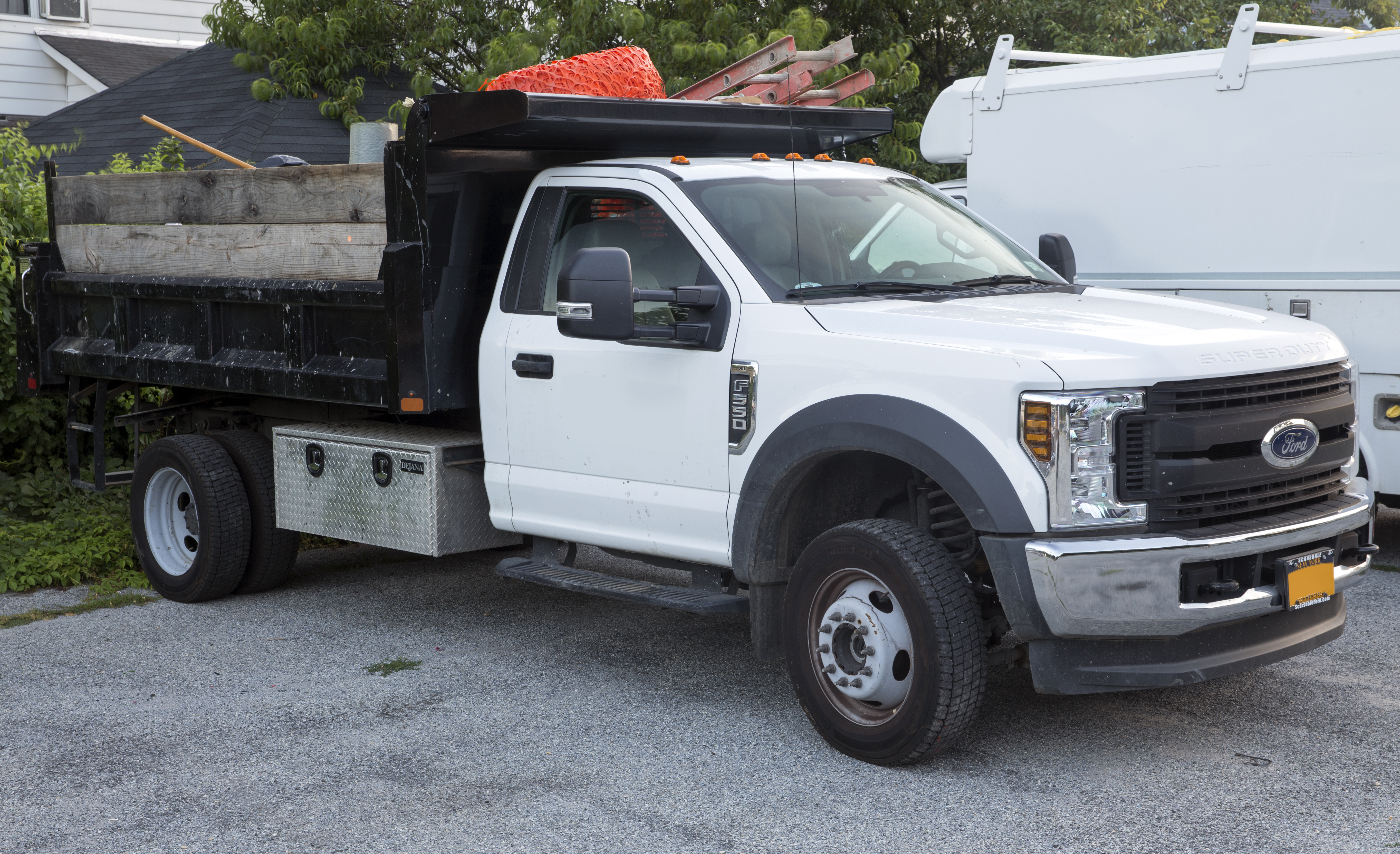 2019 Ford F-550 4WD chassis cab with the 288hp 6.8-liter gasoline V10 Triton engine. Built at Ford's Kentucky Truck Plant in Jefferson County, KY.